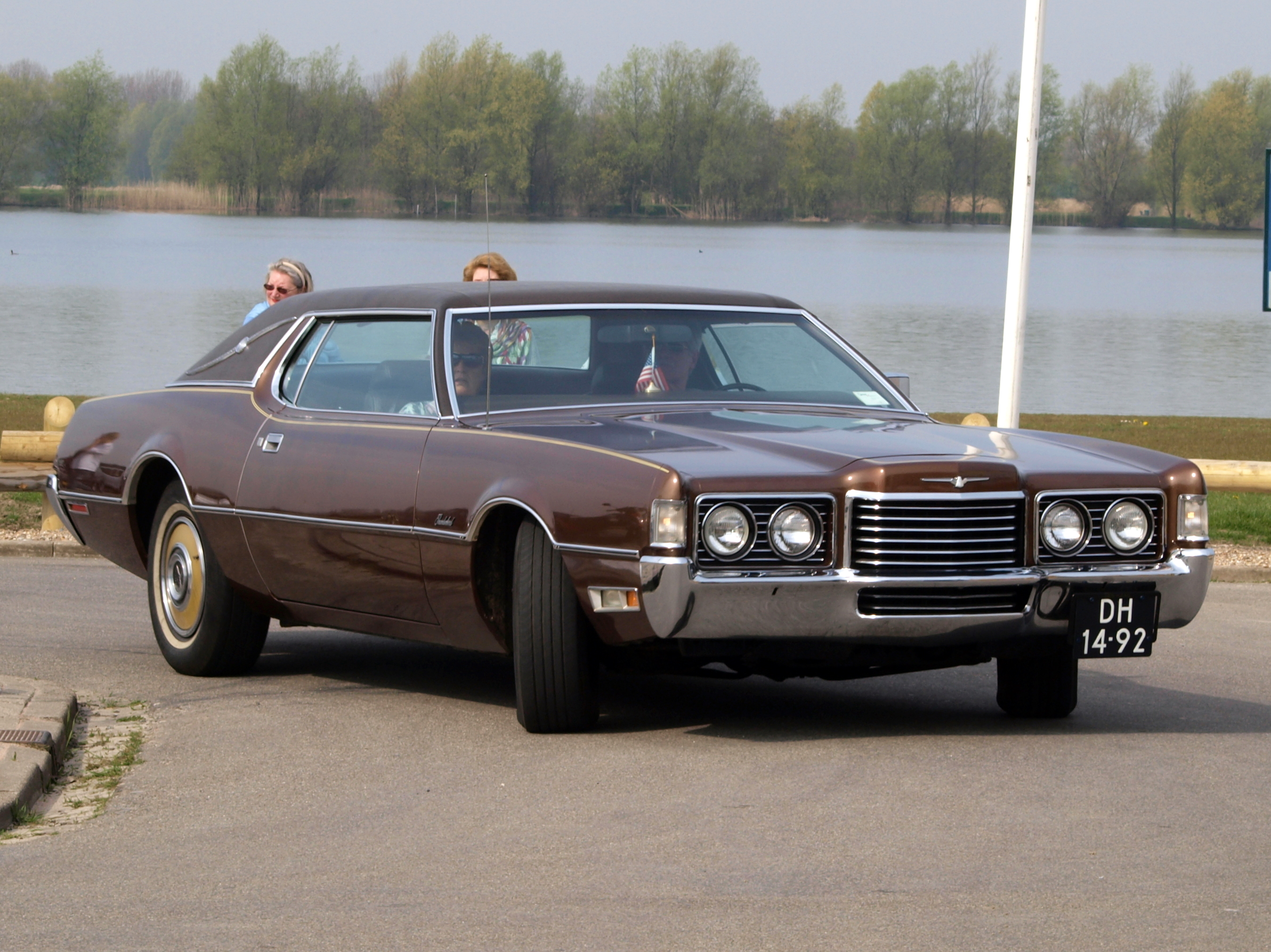 Cars and motorcycles photographed at the Voorschotense Oldtimer Vereniging Show, Valkenburgse meer, The Netherlands.